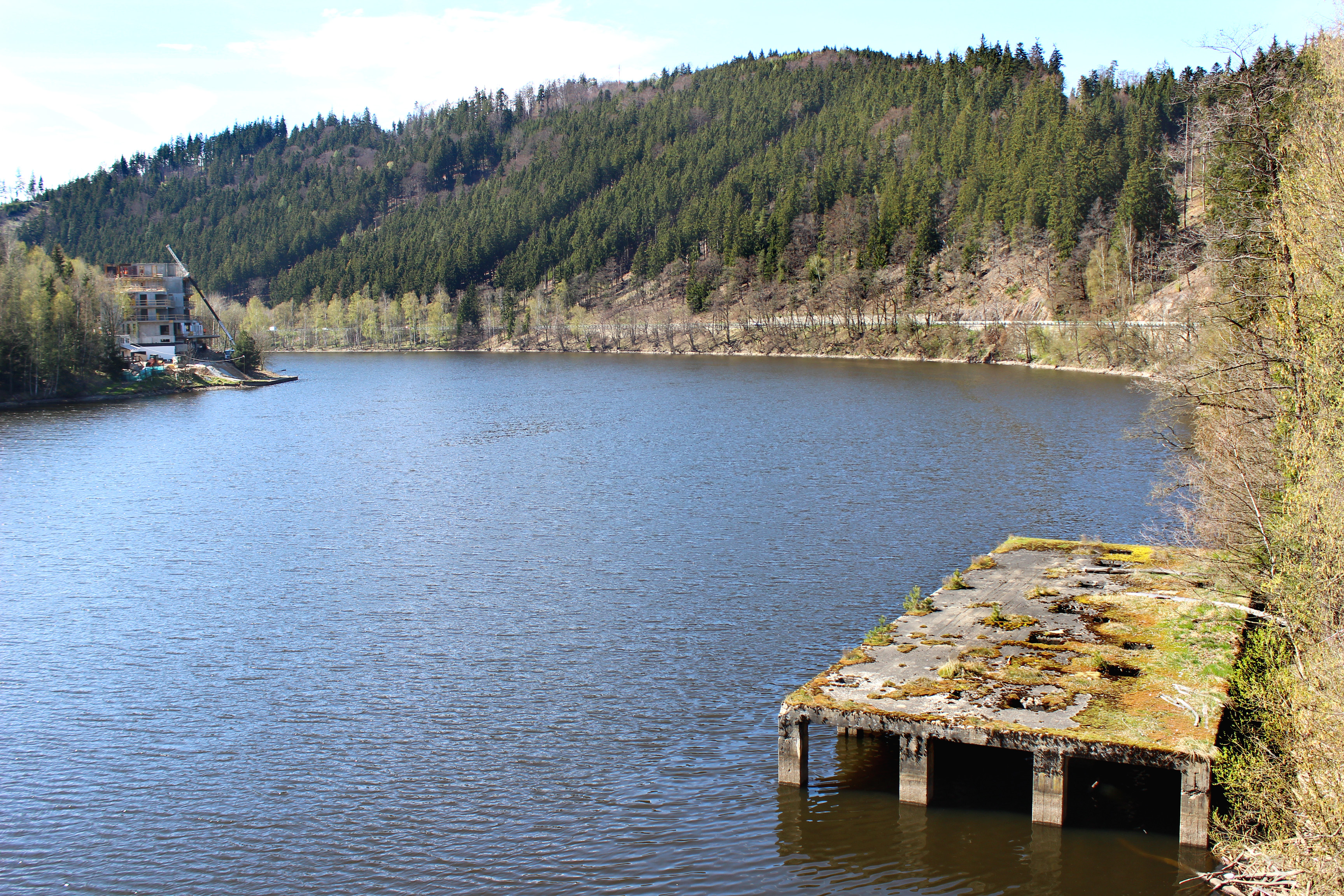 Březová Reservoir on Teplá River, Czech Republic